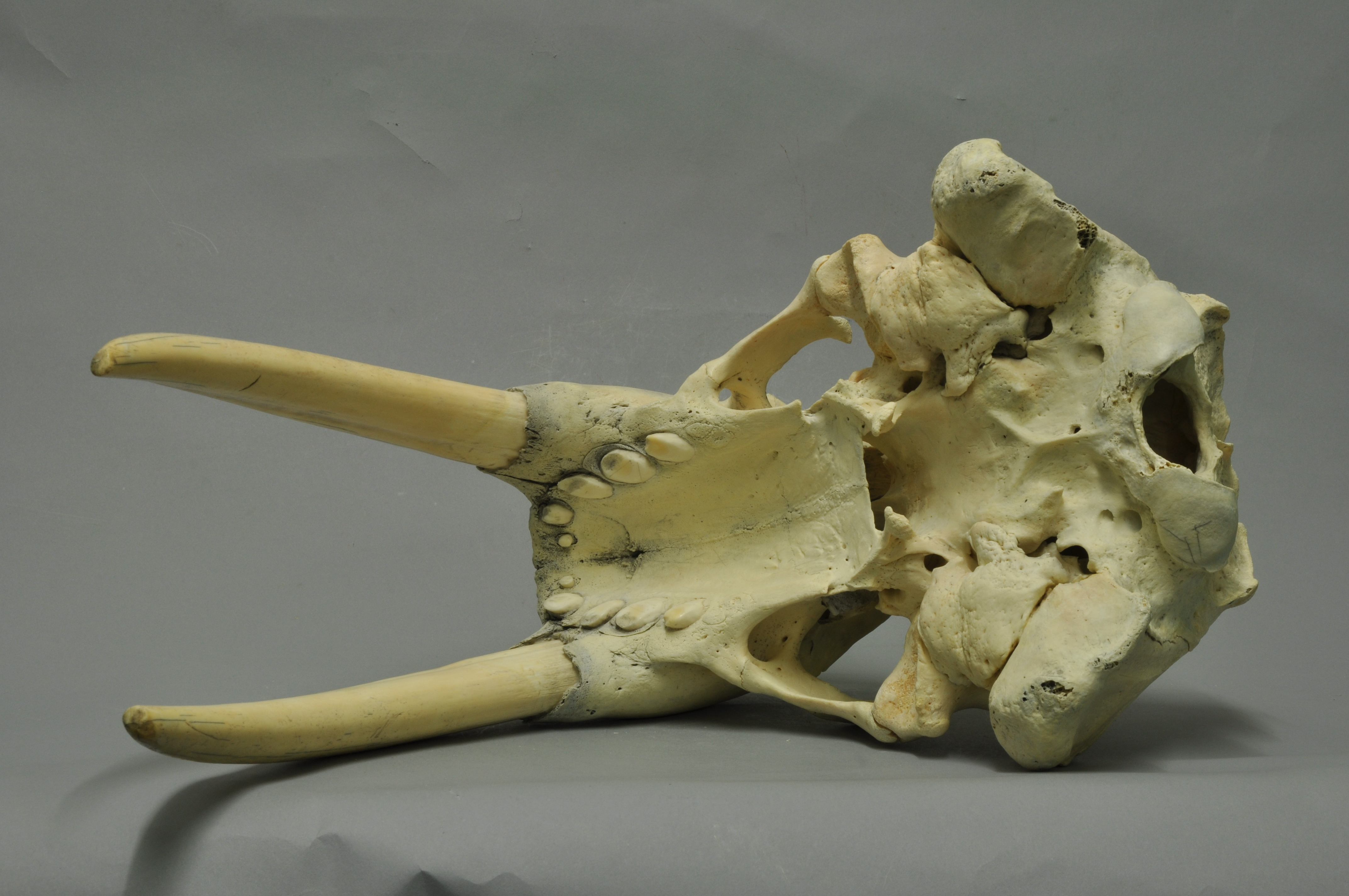 walrus , skull, Coll. Museum Wiesbaden